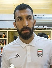 Rouzbeh Cheshmi at IK Airport